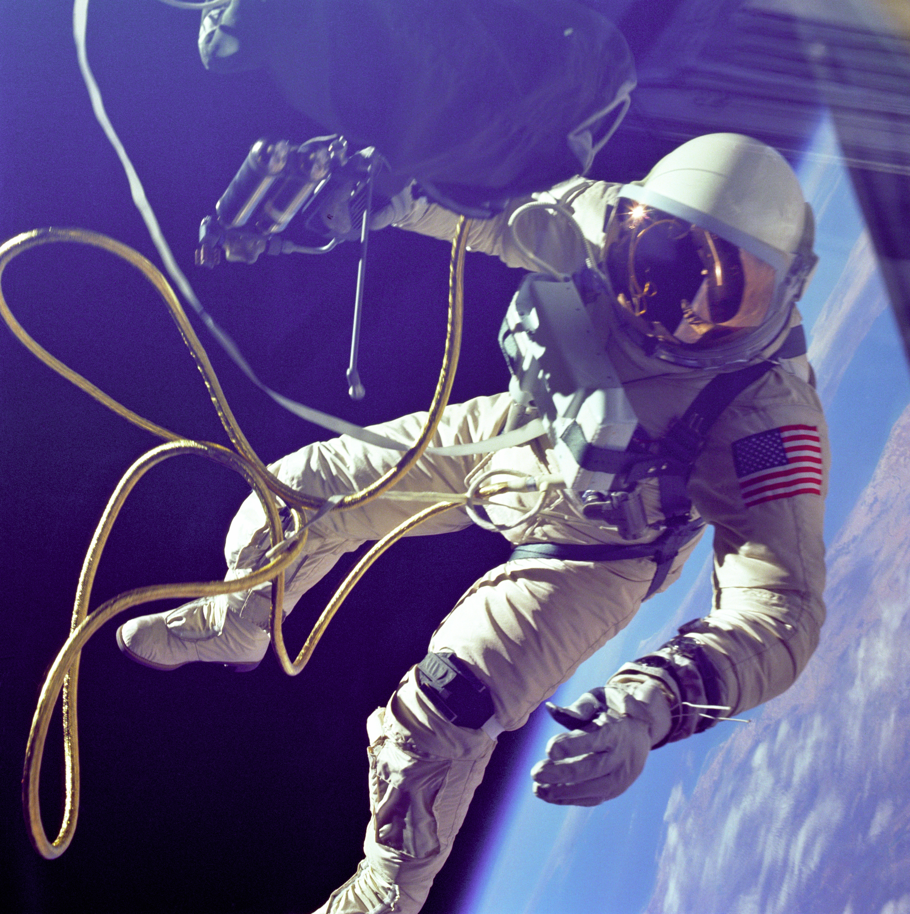 On June 3, 1965 Edward H. White II became the first American to step outside his spacecraft and let go, effectively setting himself adrift in the zero gravity of space. For 23 minutes White floated and maneuvered himself around the Gemini spacecraft while logging 6500 miles during his orbital stroll. White was attached to the spacecraft by a 25 foot umbilical line and a 23-ft. tether line, both wrapped in gold tape to form one cord. In his right hand White carries a Hand Held Self Maneuvering Unit (HHSMU) which is used to move about the weightless environment of space. The visor of his helmet is gold plated to protect him from the unfiltered rays of the sun.